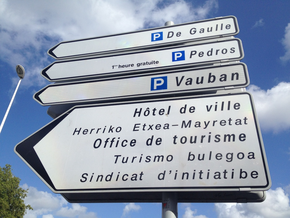 Bayonne, France trilingual sign in French, Basque, and Gascon Occitan